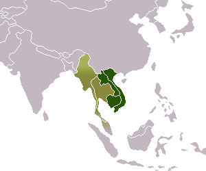 Image of Indochina, created from BlankMap